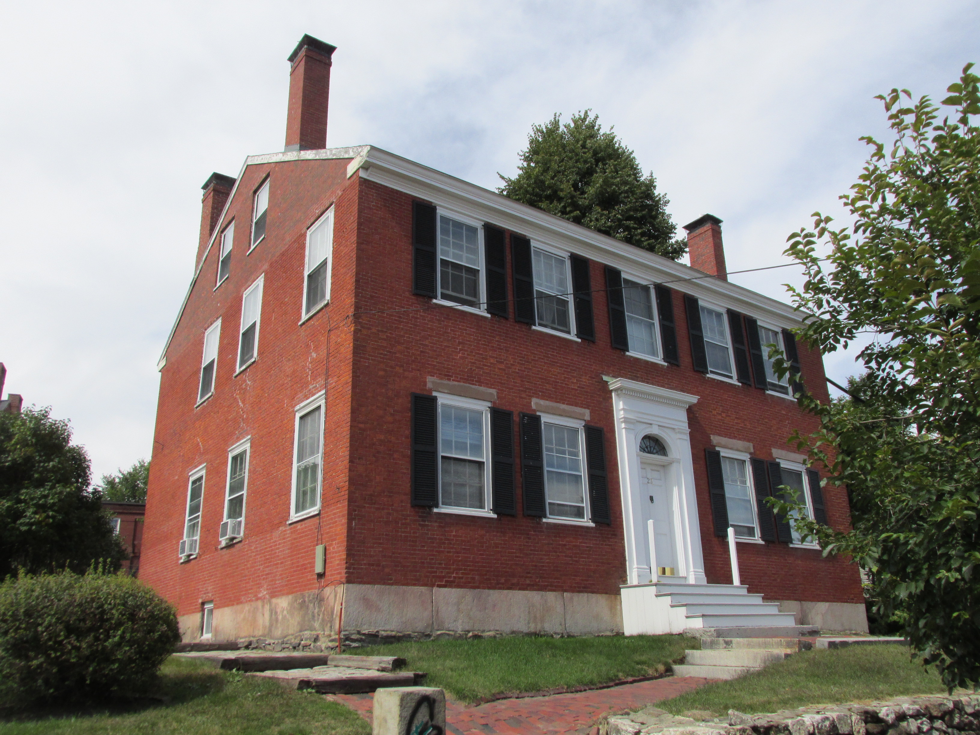 Daniel How House, Portland Maine